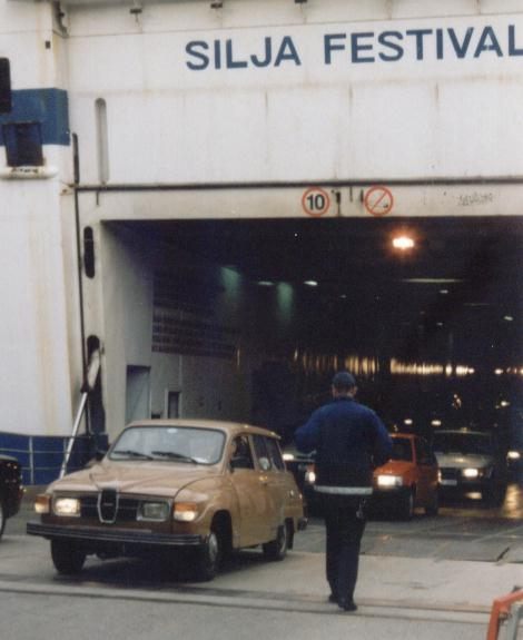 A 1978 Saab 95 coming off the MS Silja Festival in Turku, August 2001.